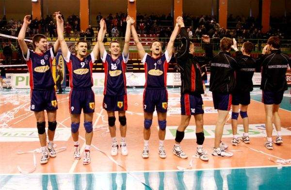 Czarni Radom players after match